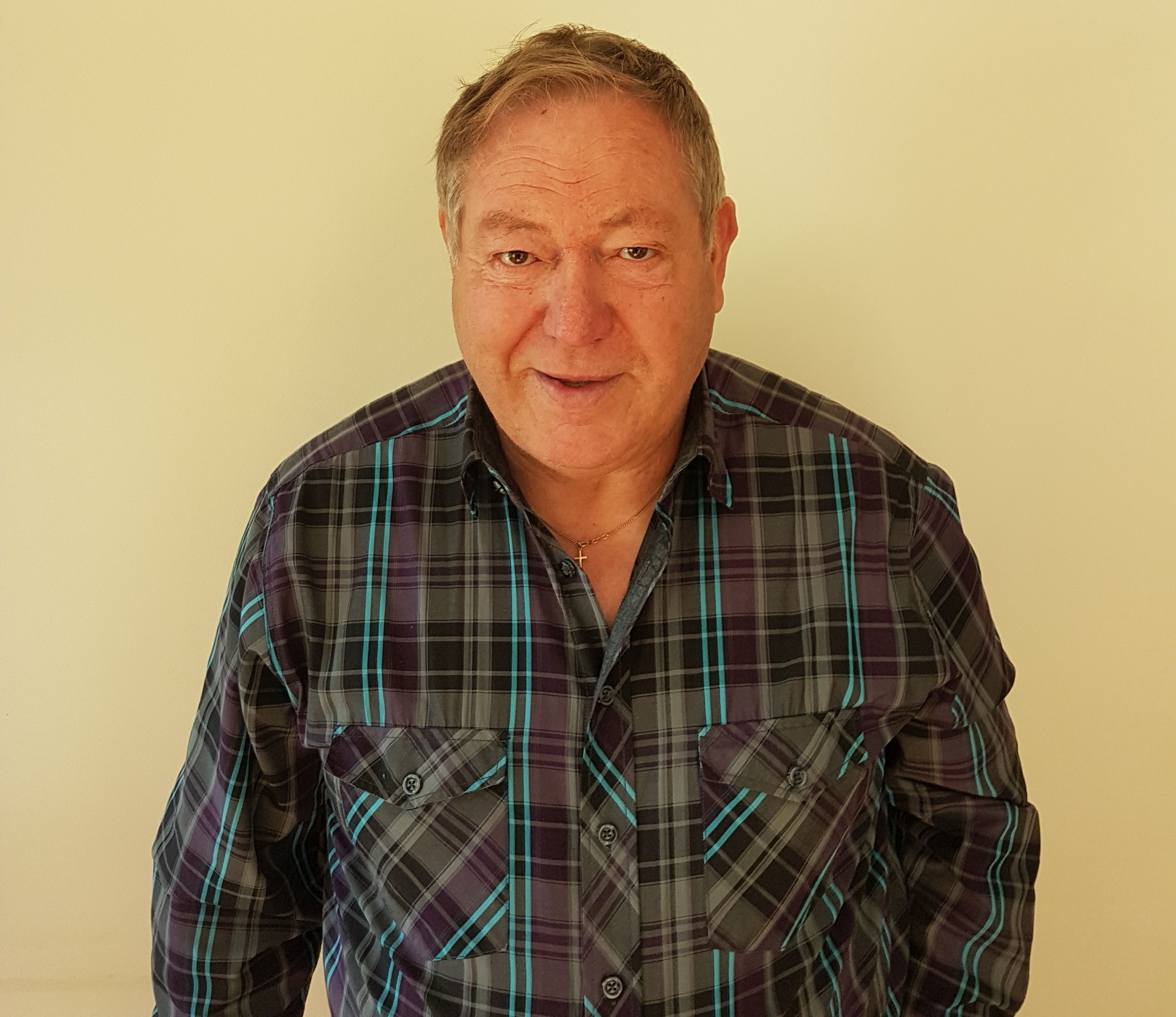 Helmut Leite, mayor of Schwarzach (1979 to 2010) in Vorarlberg, Austria.